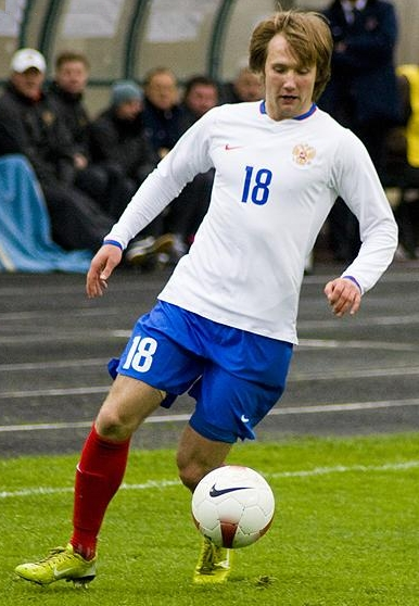 Nikolai Zhiliaev in action for Russia national U21 football team